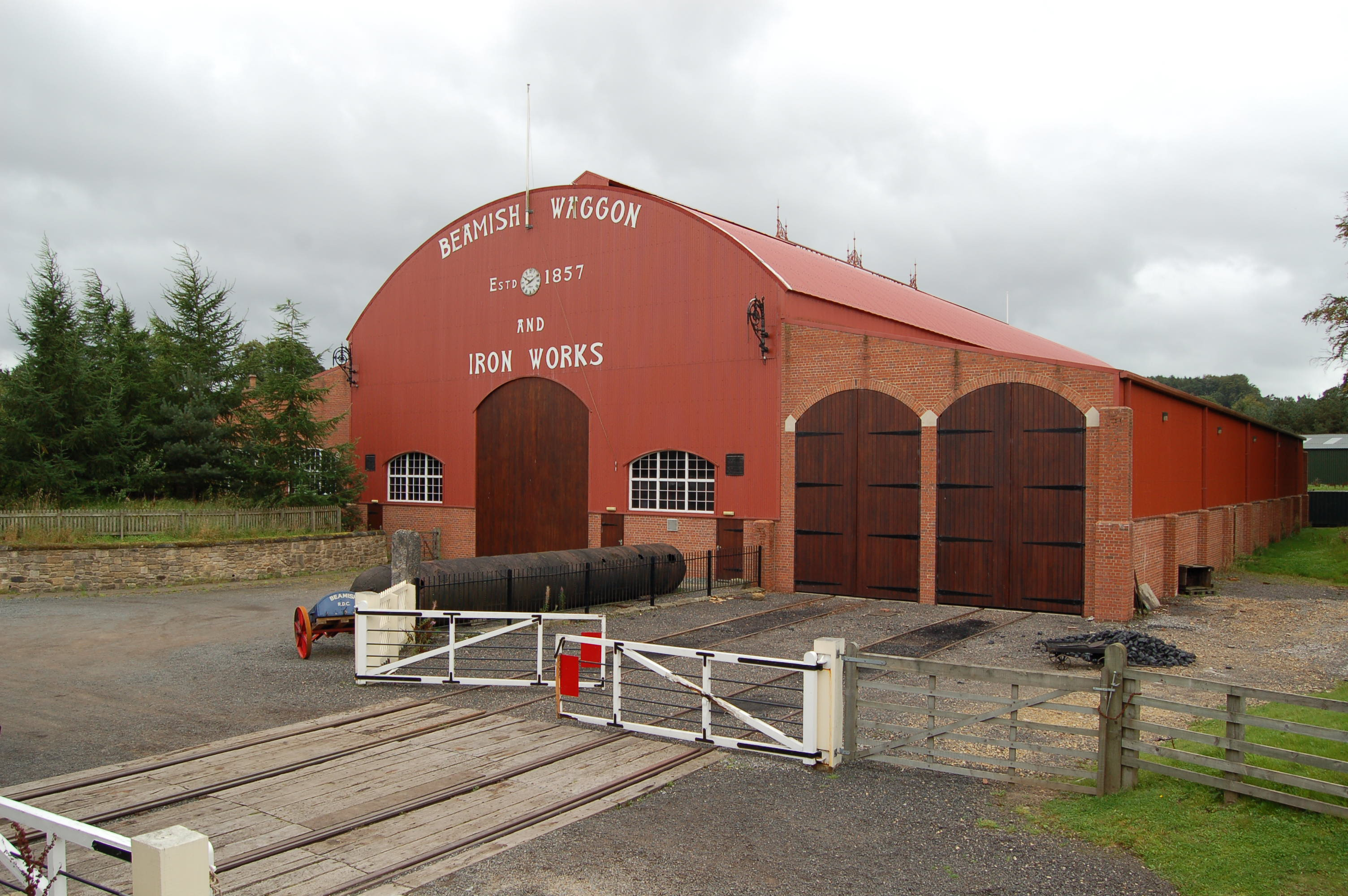 Beamish Museum, County Durham, England. This is the east side of the Waggon & Iron Works, seen from the north end of the western footbridge on the Town railway.